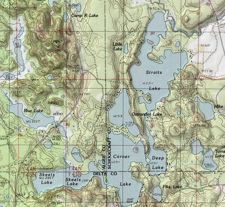 A cropped portion of the USGS Corner Lake quadrangle topo map. 1982 version; current: 1985